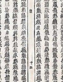 Detail of a page from the Tangut text Auspicious Tantra of All-Reaching Union, showing an inverted Chinese character 四 "four" (in the page number "14") in the centre fold. This is typical of books printed with movable type.